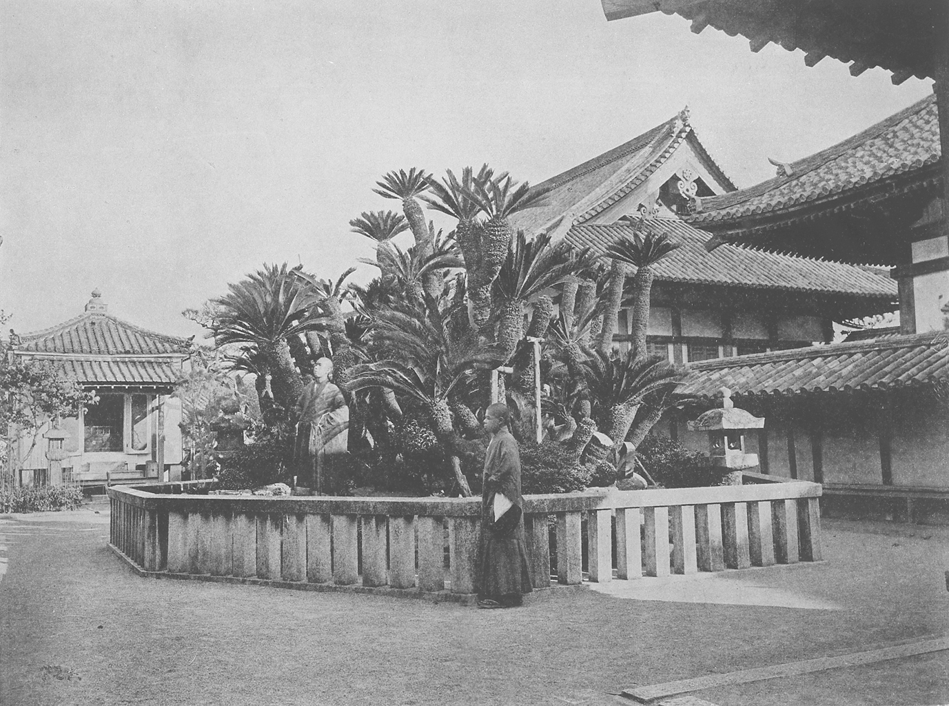 Japan Cycas revoluta in Myokoku-ji Osakafu / approx 1100 years / photo from 1903, but still existing